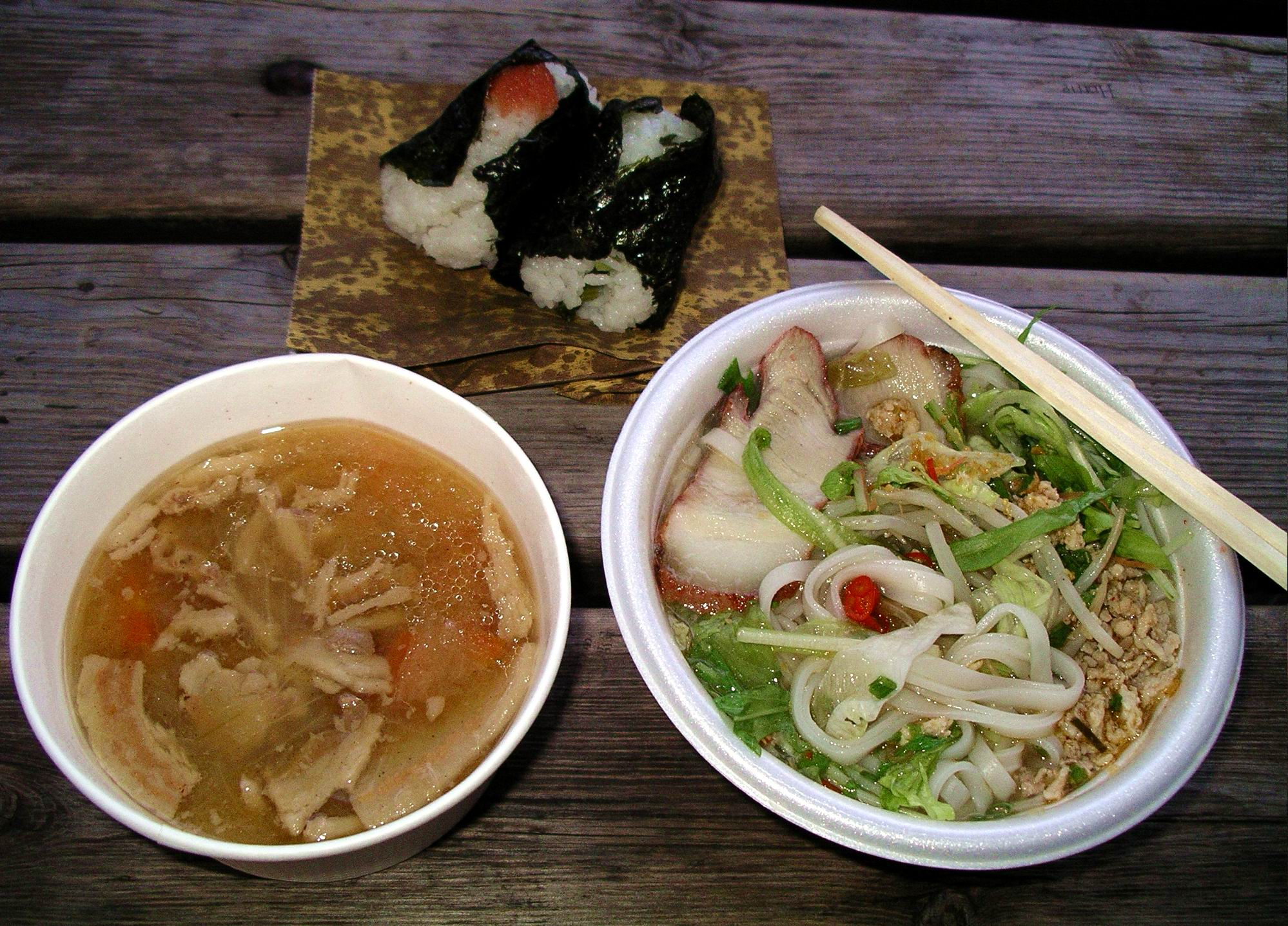 Pho (Vietnamese noodle soup) on the right with onigiri (rice "sandwiches" stuffed with pickled greens and spicy cod roe) and tonjiru (pork soup)